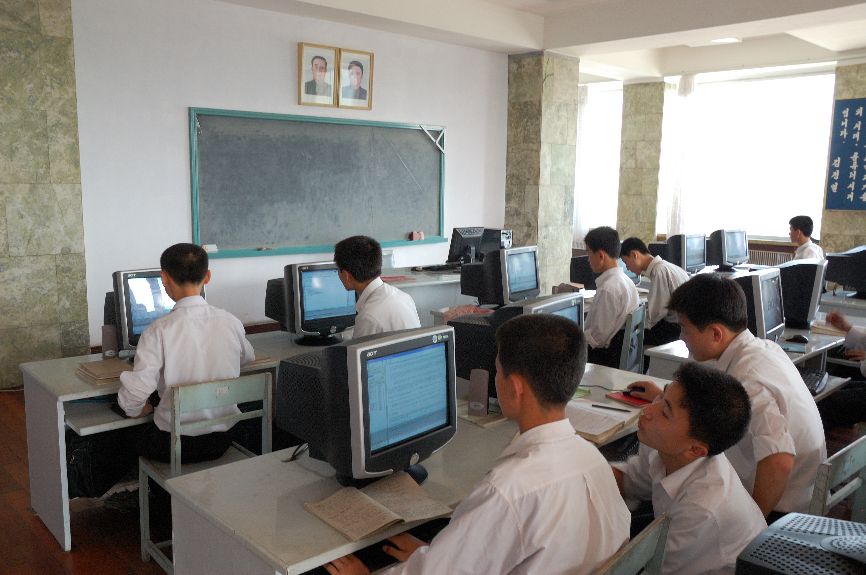 Schoolchildren's Palace. Pyongyang, North Korea.